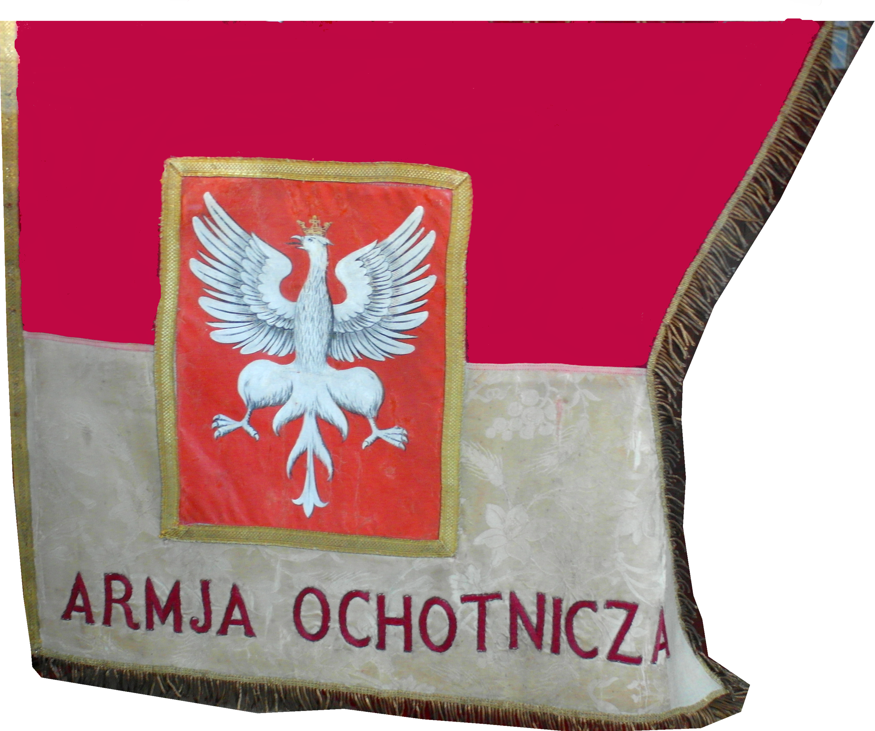 Pennant of the Volunteer Army (Second Polish Republic) in War 1920